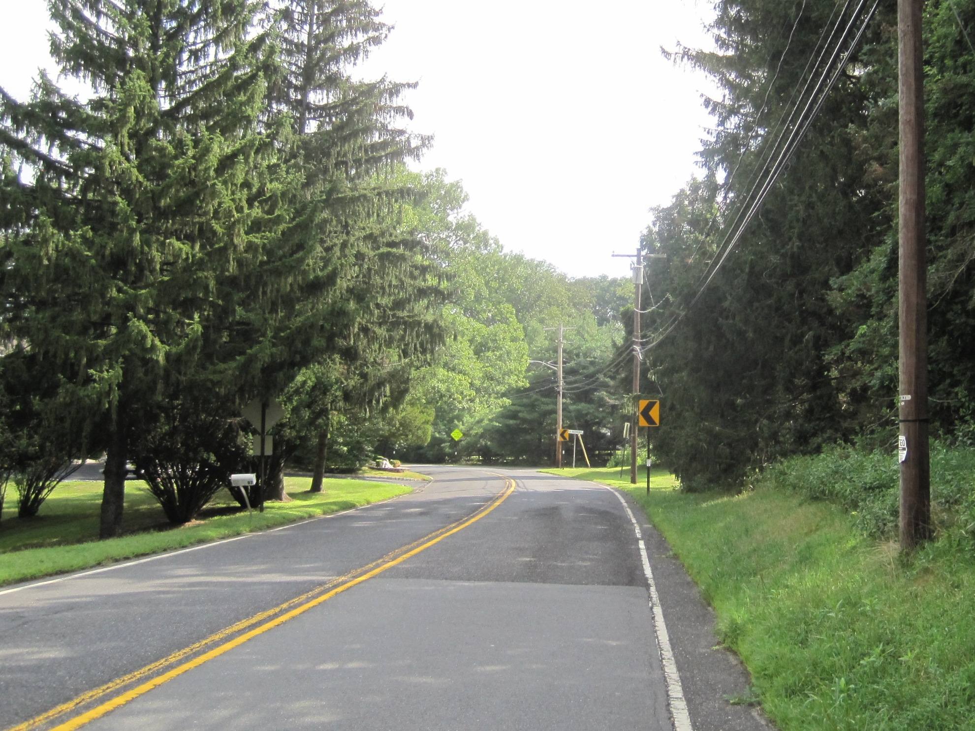 Photo of Charleston Springs, New Jersey, an unincorporated community within Millstone Township. Photo taken along eastbound Stage Coach Road (County Route 524) approaching Ely Harmony Road.